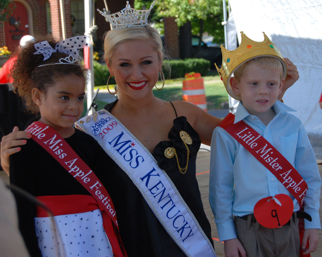 Mallory Ervin, Miss Kentucky 2009 at the Apple Festival in Bedford, Kentucky